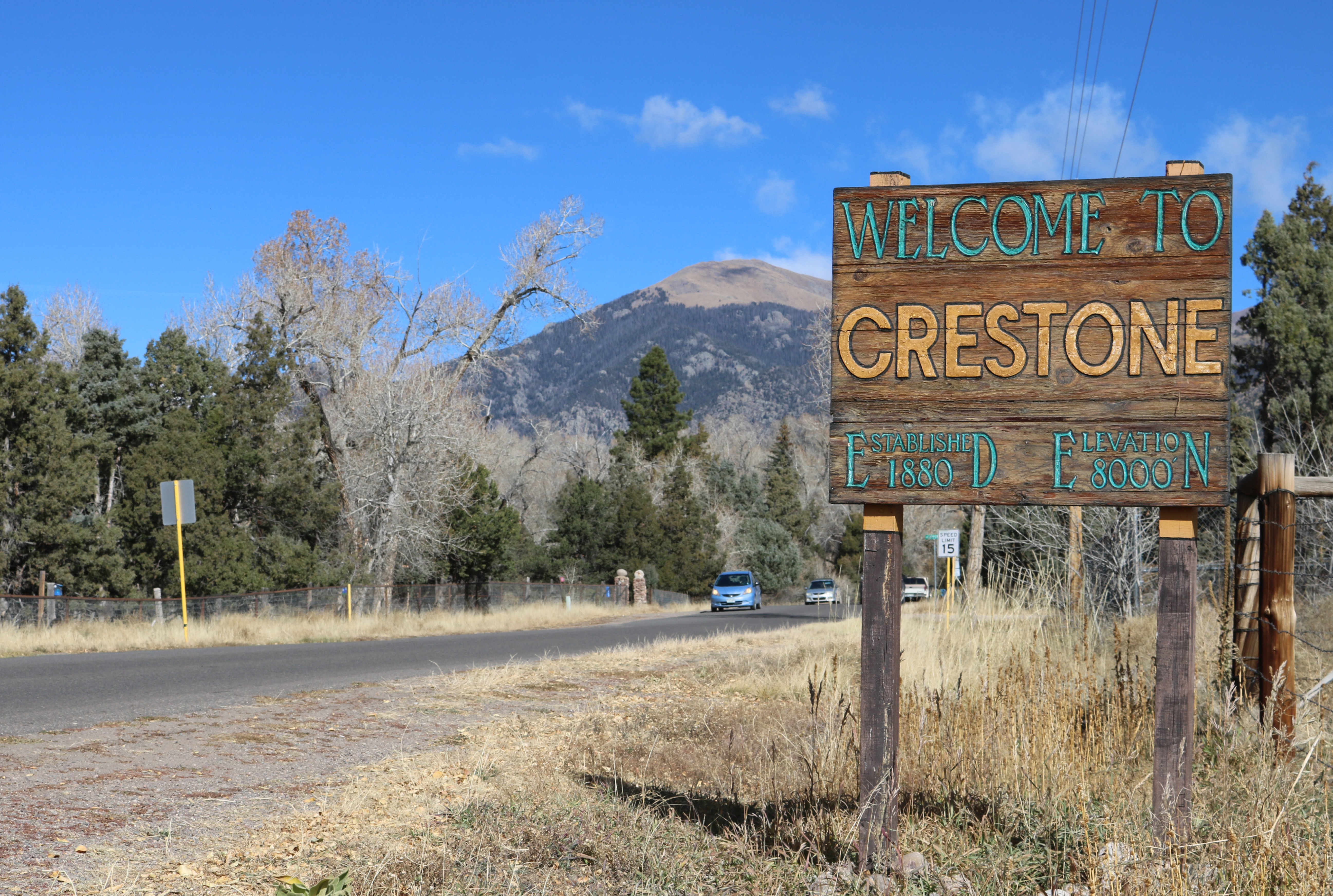 A sign that reads, "Welcome to Crestone, established 1880, elevation 8000," located on Birch Street in Crestone, Colorado.